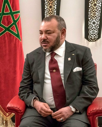 King Mohammed VI received John Kerry in Marrakech